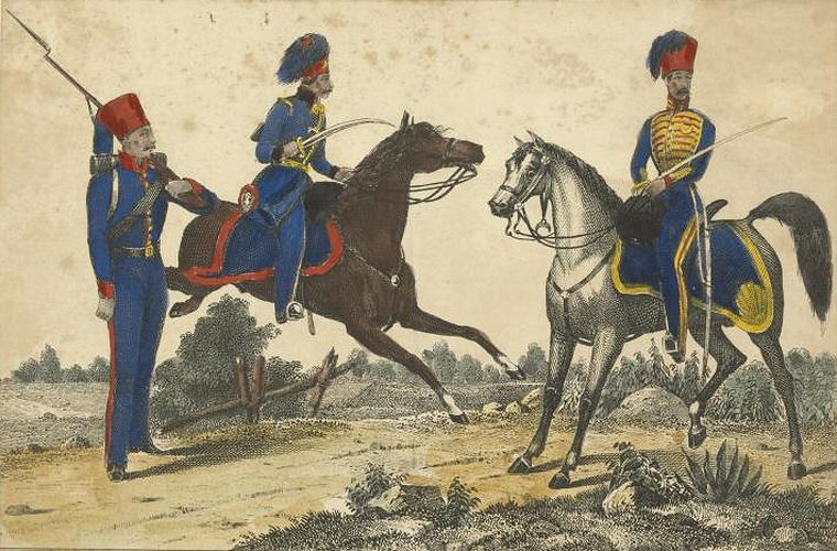 Turkish cavalry in 1839-1840